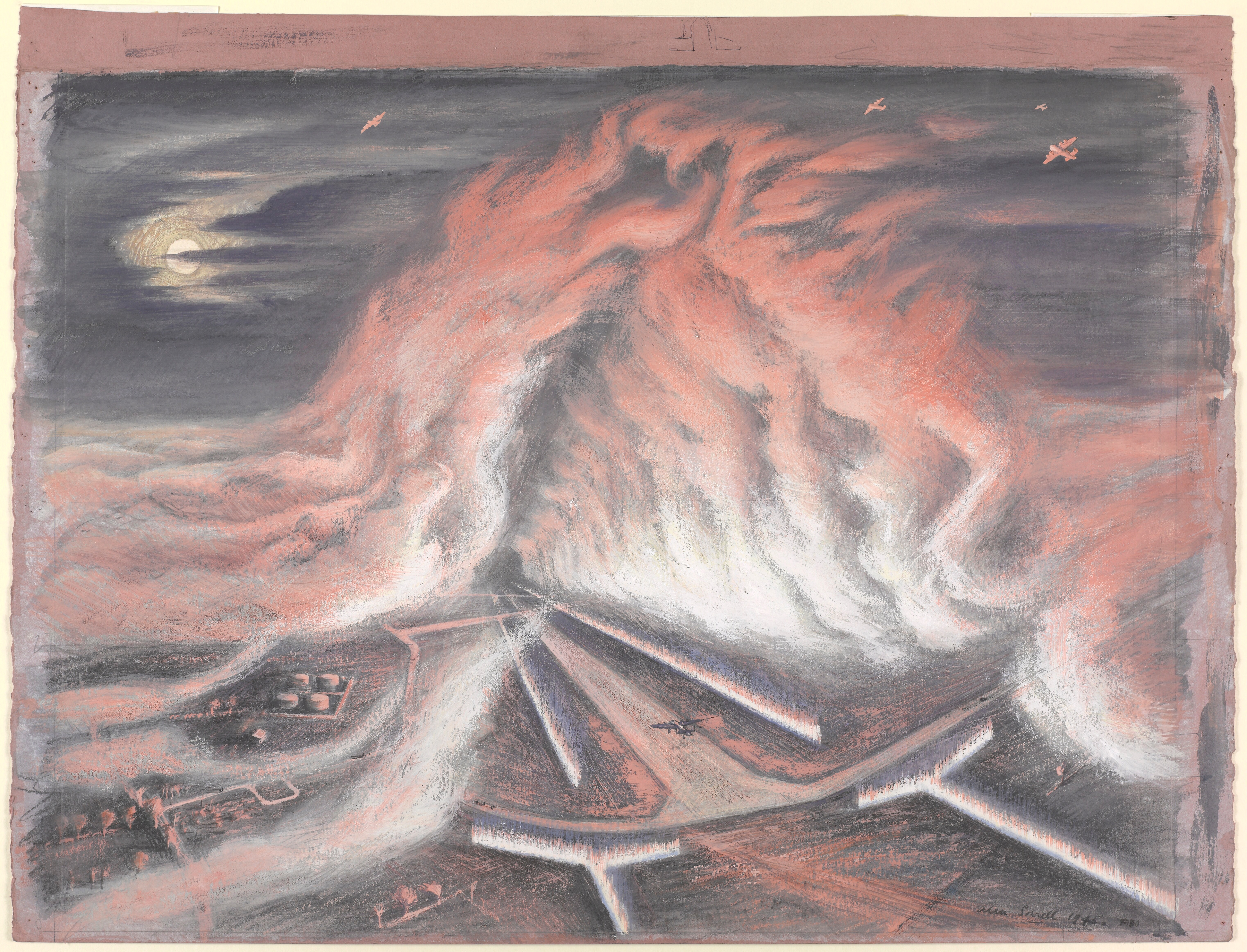 Fog being dispersed from a runway at night